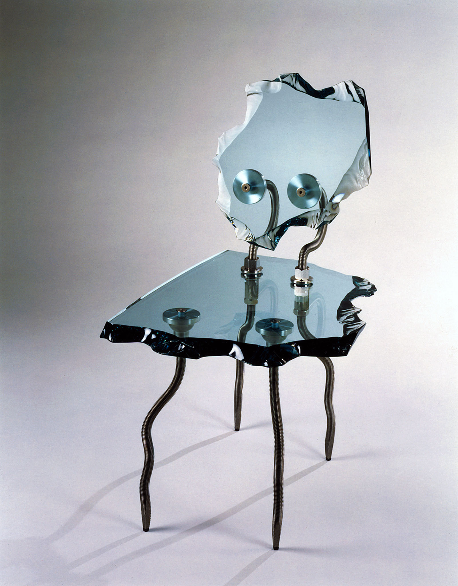 Etruscan Chair, 1992, Glass, stainless steel